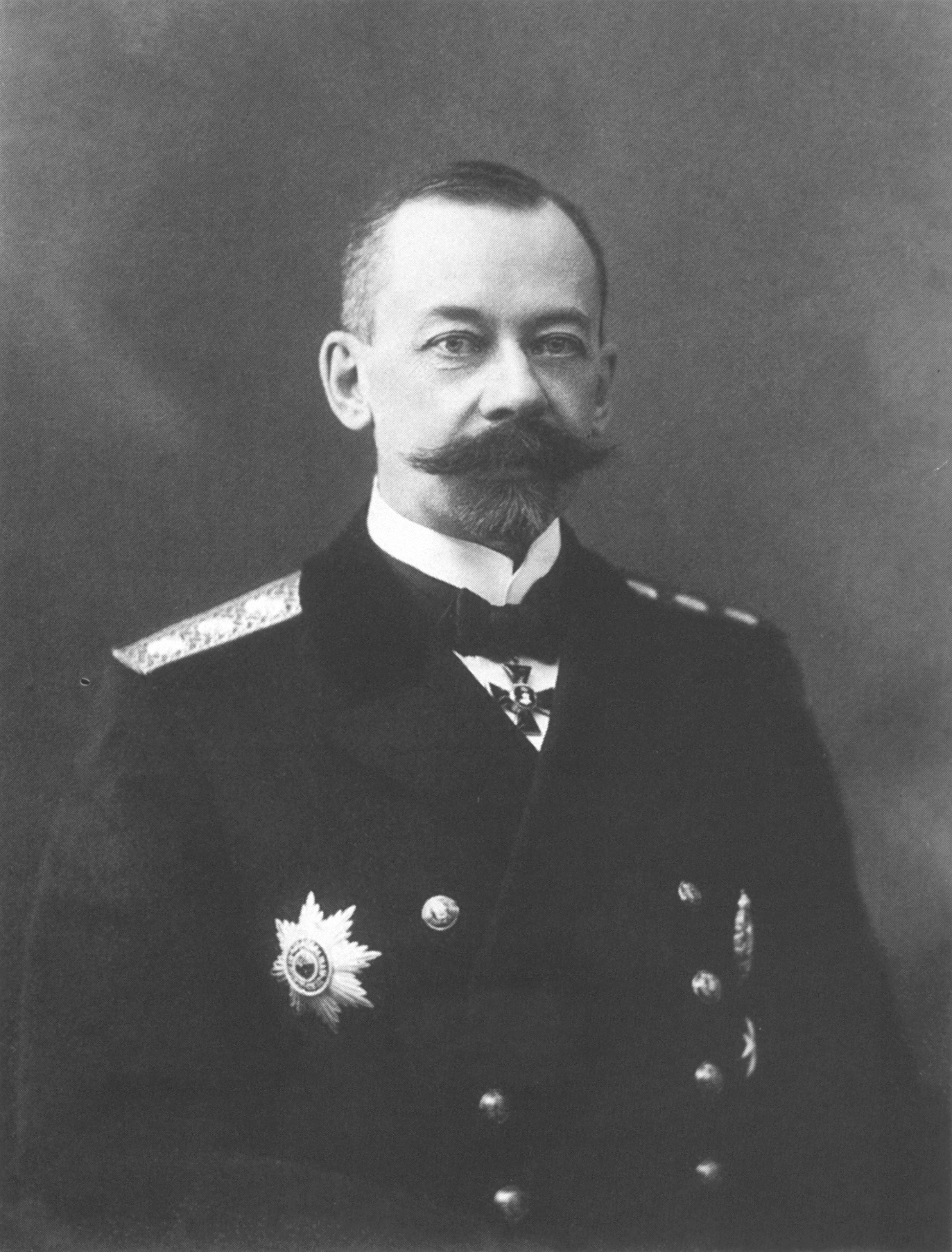 Alexander Vasilievich Adlerberg (1860-1915), was a Russian statesman; St Petersburg's, Penza's and Pskov's governor. 1913.